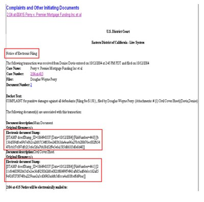 NEF, including an RSA string encrypting a digital signature, Eastern District of California, U.S. Court.